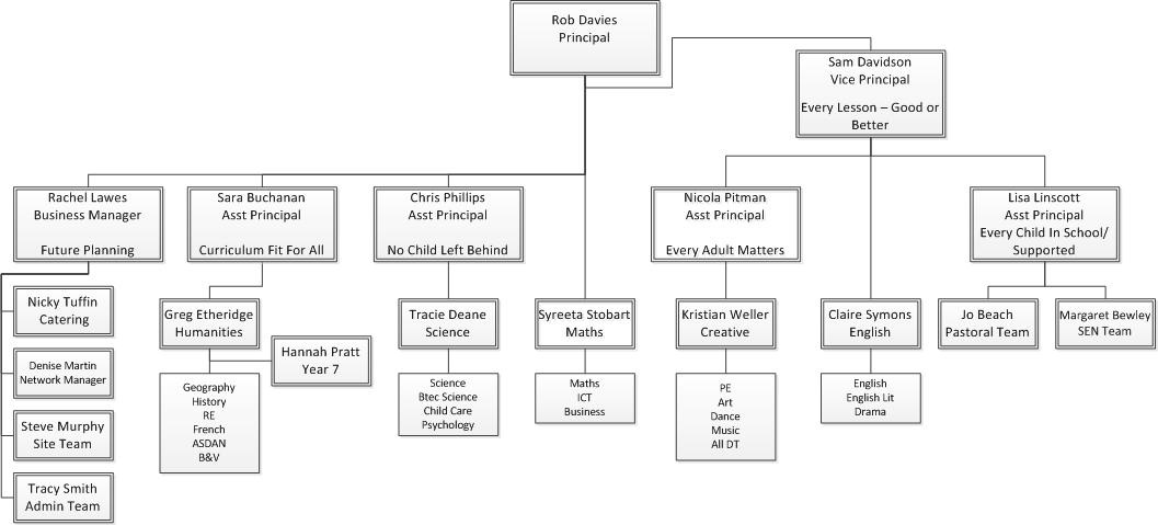 The 2014 leadership structure at Carter Community School, Poole.